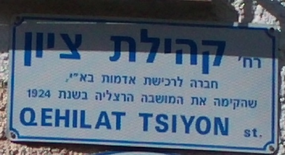 Qehilat Tsiyon street, Herzliya רחוב קהילת ציון בהרצליה